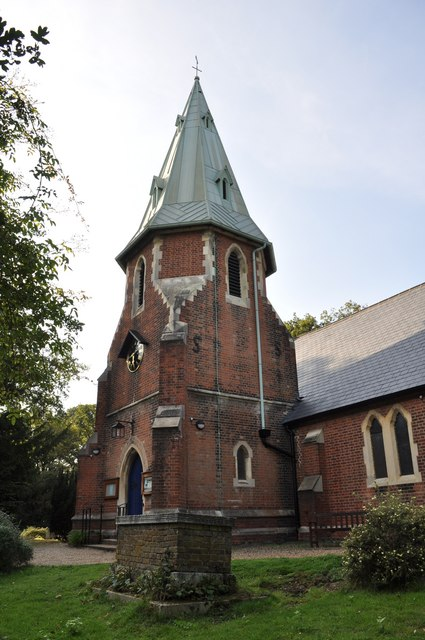 St. Mary the Virgin Church, Theydon Bois.